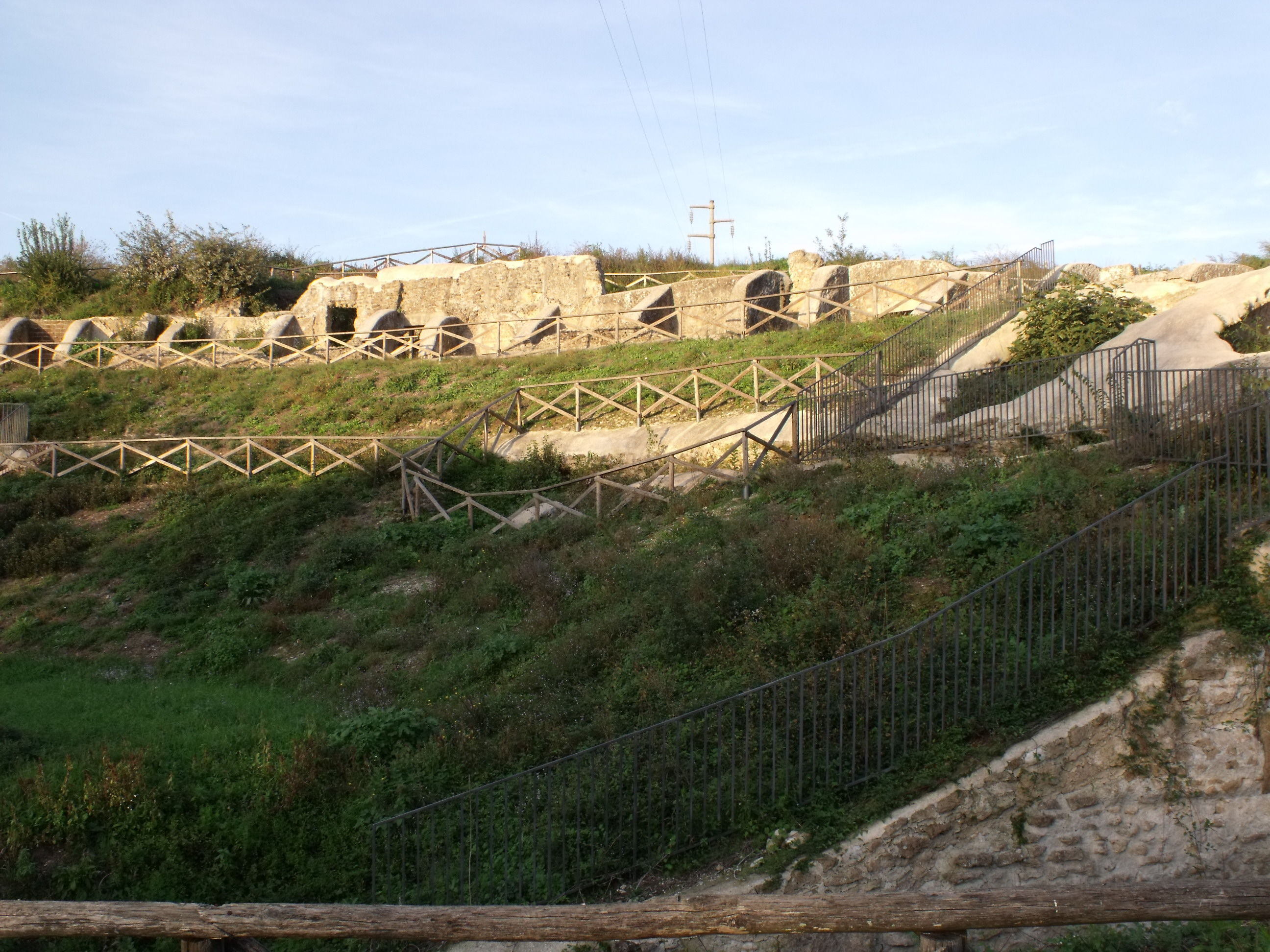 Roman theater in Ocriculum (Otricoli), Province of Terni, Umbria, Italy